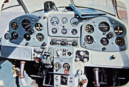 Foto credit: Robert Haraldsen, Norway.